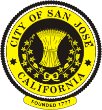 The official city seal of San Jose, California.